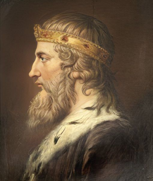 Portrait of Alfred the Great by Samuel Woodforde (1763-1817)